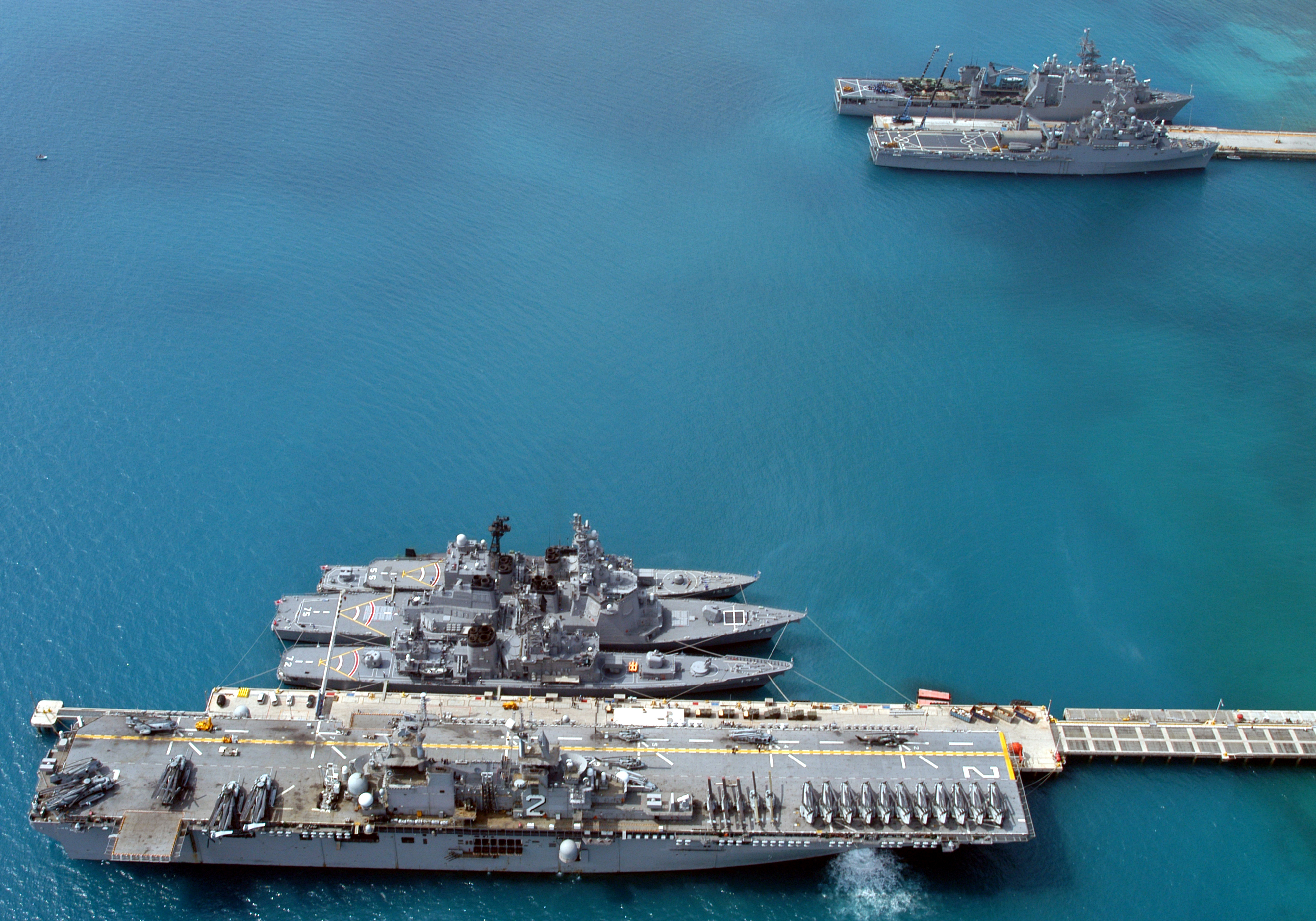 White Beach Port Facility, Okinawa, Japan (Feb. 28, 2003) - A busy day for the White Beach Port Facility in Okinawa, Japan as the amphibious assault ship USS Essex (LHD 2), Japanese Maritime Defense Force (JMSDF) ships Shimakaze (DDG 172), Myoukou (DDG 175), Hamagiri (DD 155), Natusio (SS 584), USS Juneau (LPD 10), and USS Fort McHenry (LSD 43) sit moored in port. U.S. Navy photo by Photographer’s Mate 1st Class James G. McCarter. (RELEASED)